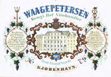 Advertisement for royal wine merchant Waagepetersen featuring the Waagepetersen Hoise at Store Strandstræde 18 in Copenhagen, Denmark